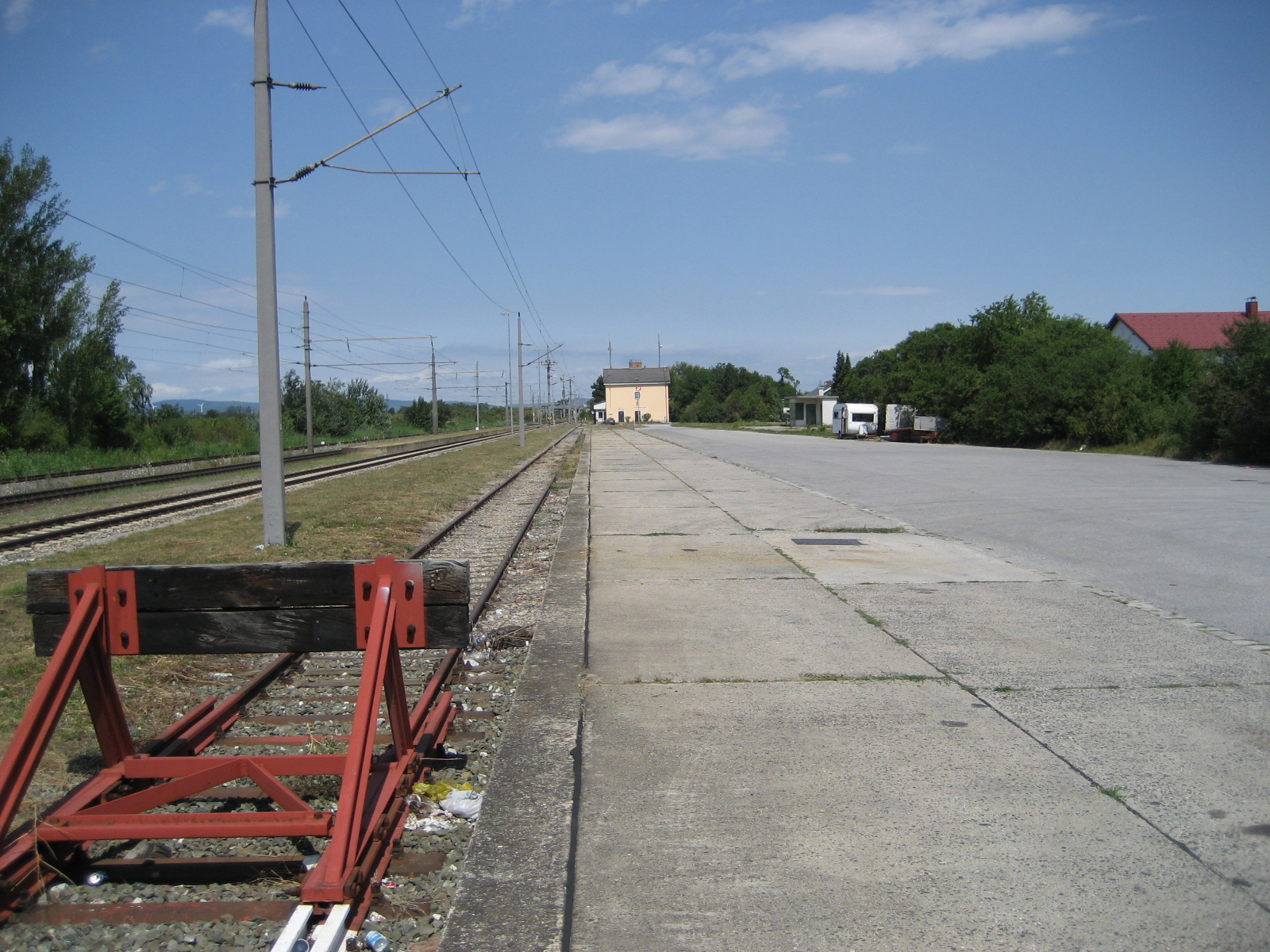 Achau train station in Lower Austria